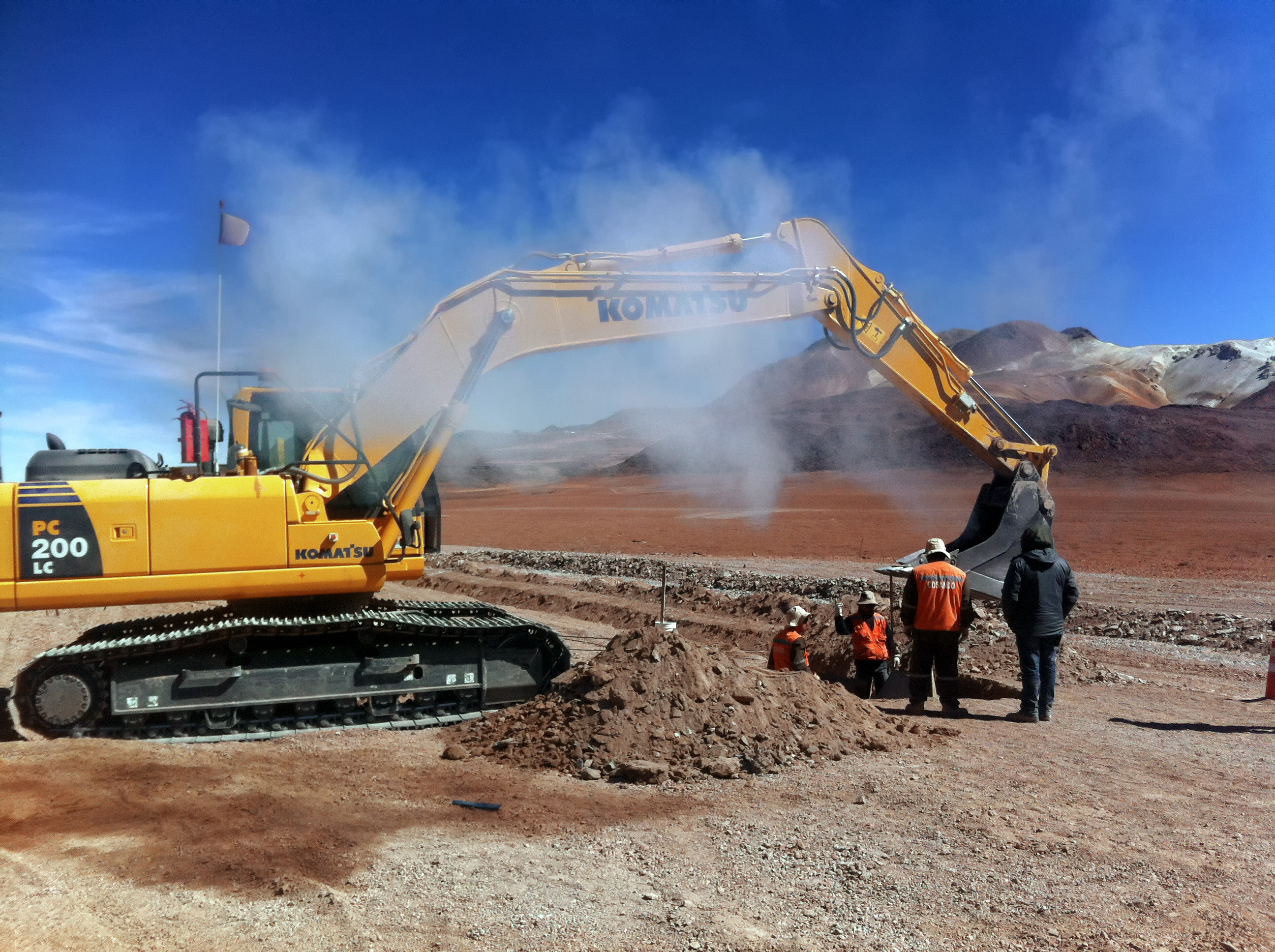 The Atacama Large Millimeter/submillimeter Array (ALMA) radio telescope has increased its capacity for remote transmission of data by a factor of 25. A new connection consisting of 150 kilometres of fibre optic cables has been successfully installed between the observatory — situated 34 kilometres from San Pedro de Atacama — and the city of Calama in northern Chile. From Calama, the system connects with the Corporación Red Universitaria Nacional (REUNA) network, which is already established in Antofagasta and, from there onwards, to the offices of ALMA in Santiago, through existing infrastructure (the EVALSO project). This picture shows the fibre cable during installation.